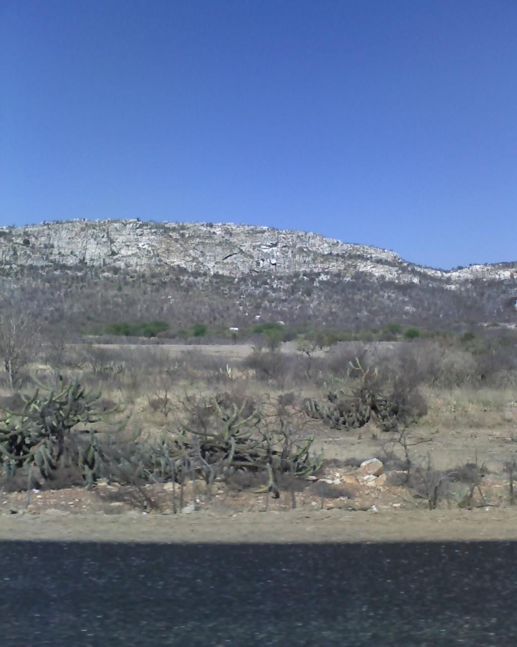 Caatinga in Chapada Diamantina (Brazil).